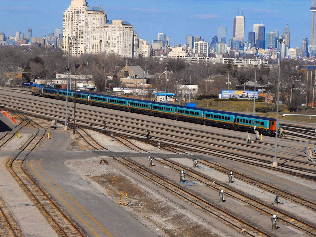 This is Train 67/52 laying over the long weekend. 10 Renaissance cars + 1 P42.